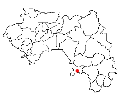 Guéckédou, Guinea Location Map; created with the GIMP. Made by User:Acntx.